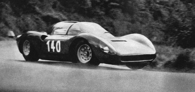 Edoardo Lualdi Gabardi on Ferrari Dino 206 SP, 1° Trofeo Città di Orvieto, 1966. This is a 206 SP #016.[1]